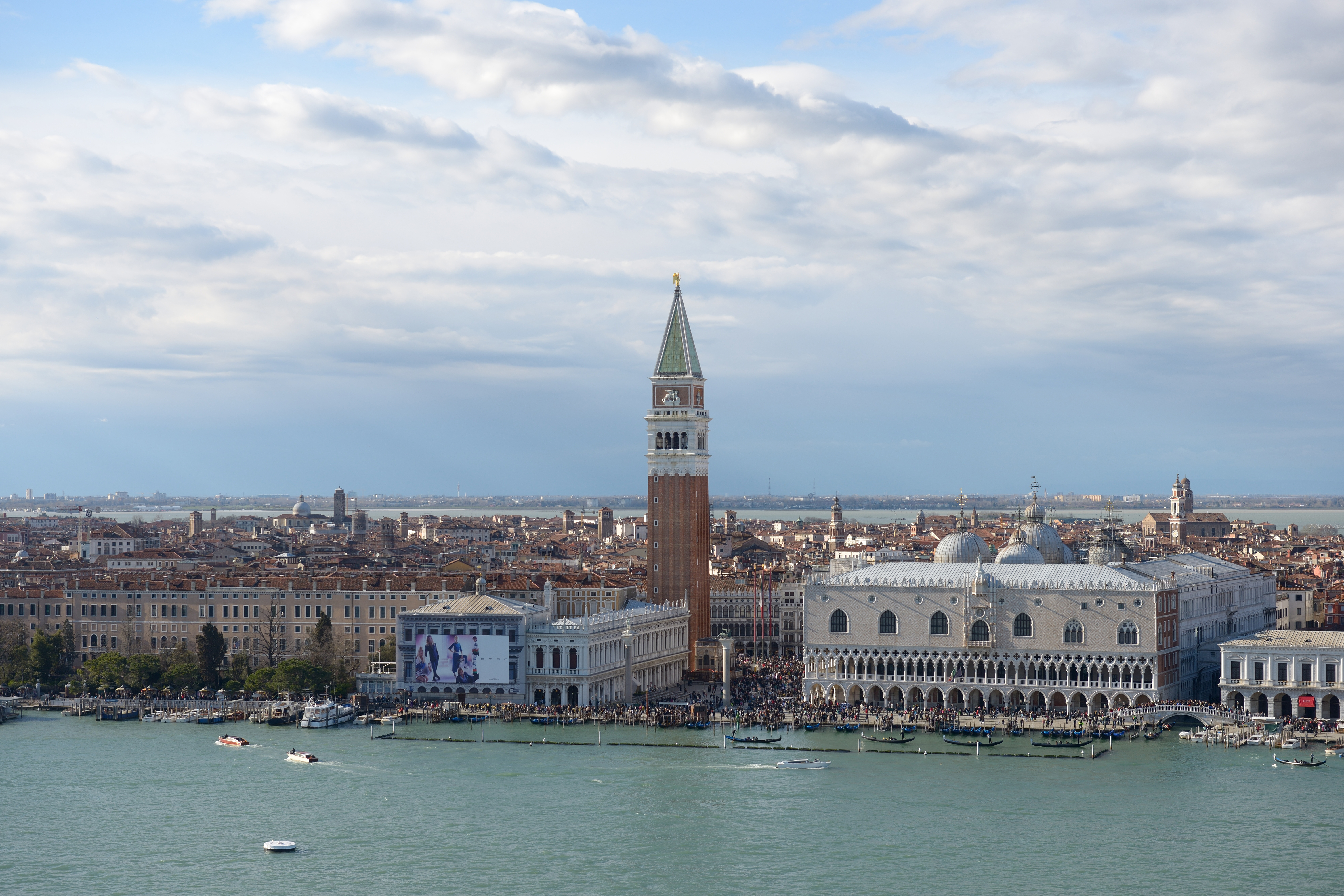 Piazza San Marco and Venice on Easter 2013.